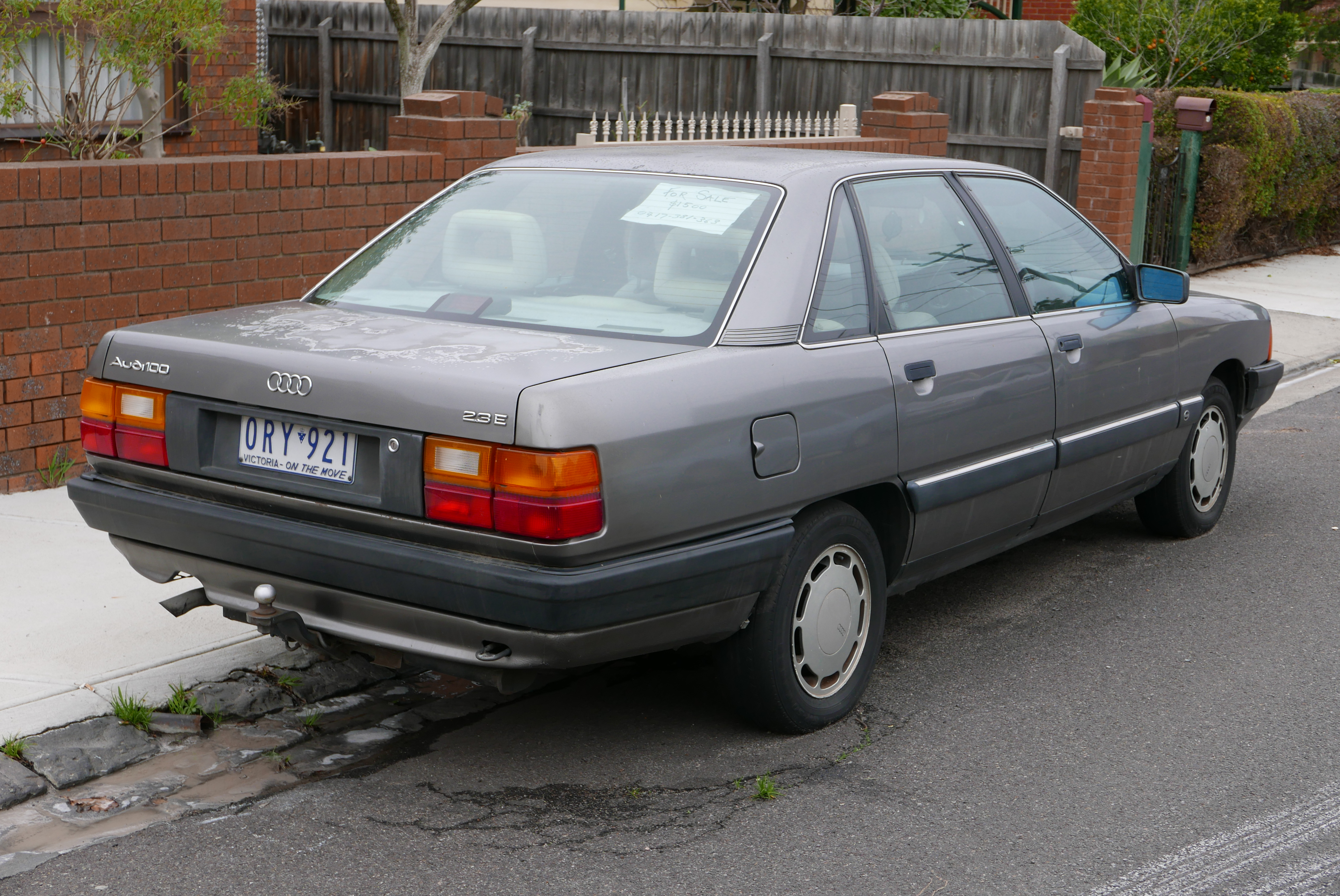 1990 Audi 100 (Type 44) CD 2.3 E sedan. Photographed in Coburg, Victoria, Australia. Vehicle registration enquiry results Jurisdiction Victoria Registration ORY921 Chassis code WAUZZZ44ZKN086842 Engine code NF098827 Compliance date 1990-03 Year of manufacture 1990